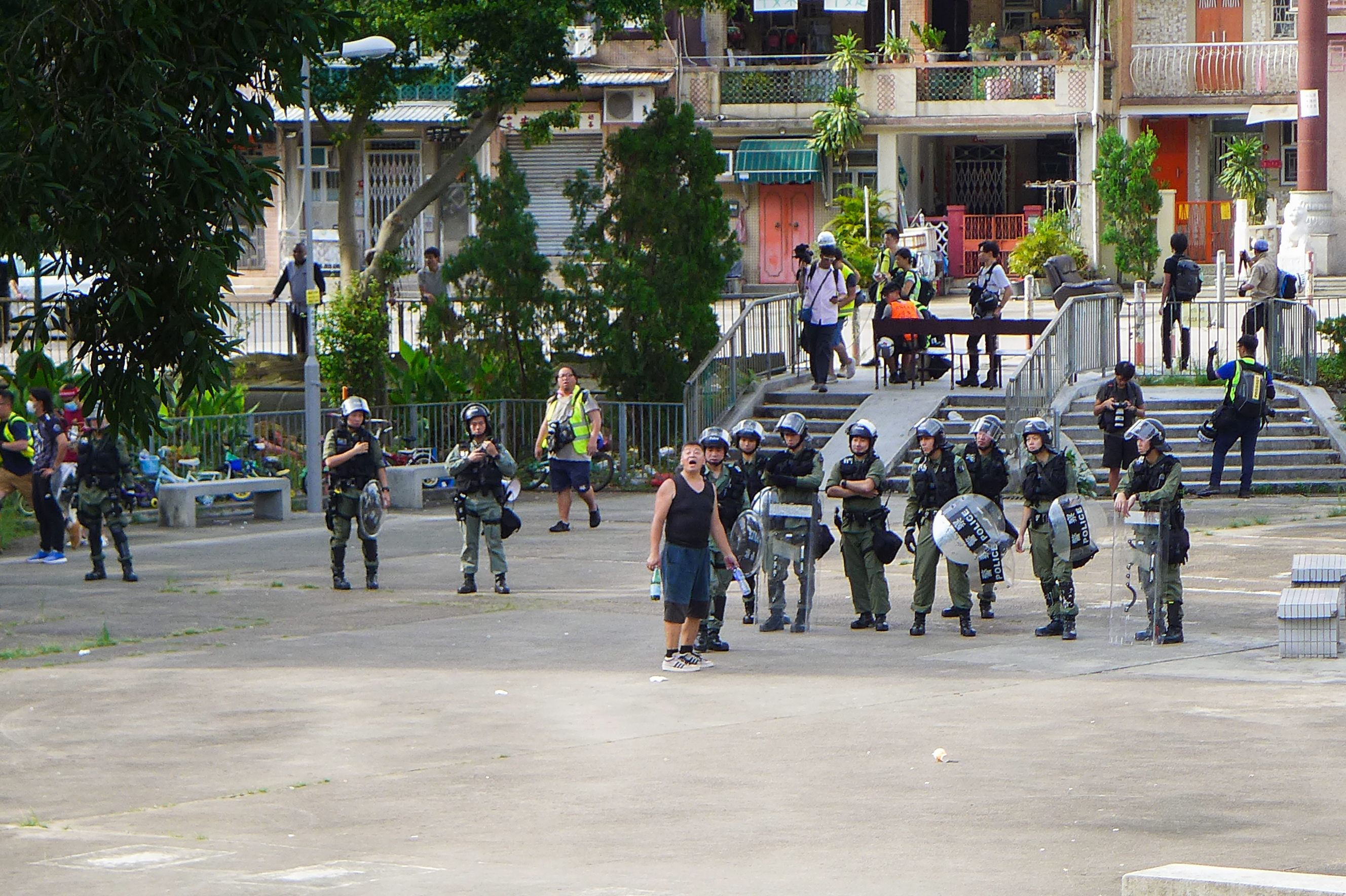 People protest in Castle Peak Road Yuen Long Section